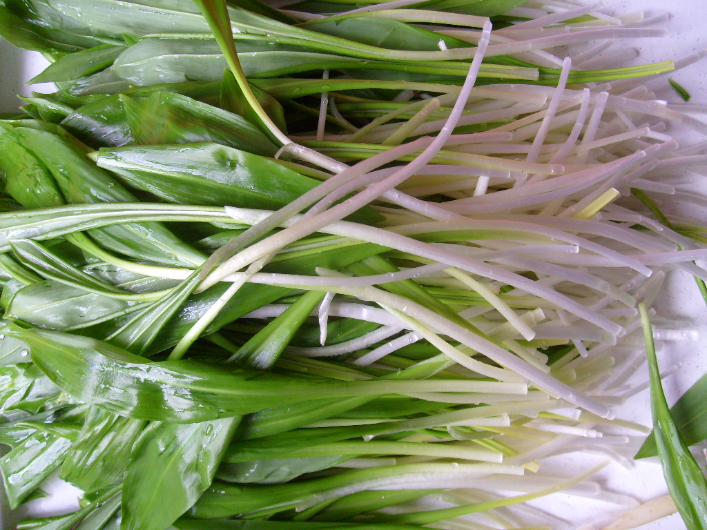 Ramsons plugged